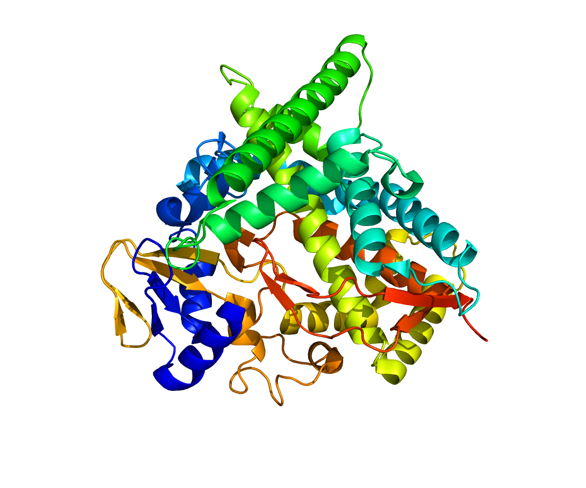 Structure of protein CYP46A1.Based on PyMOL rendering of PDB 2Q9F.